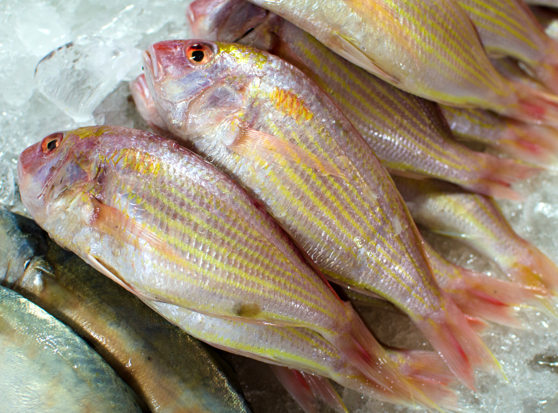 Pla sai daeng (Thai script: ปลาทรายแดง) at Thanin market in Chiang Mai.